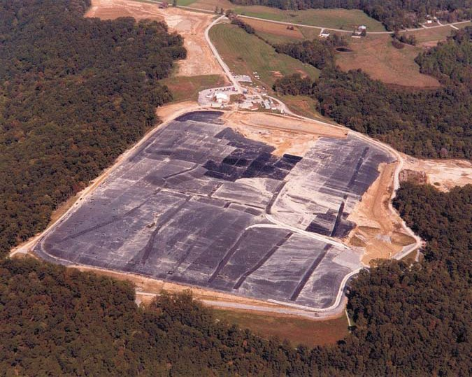 2002 aerial view of the Maxey Flats Disposal Site. The geomembrane interim cover and East Detention Basin are under construction.